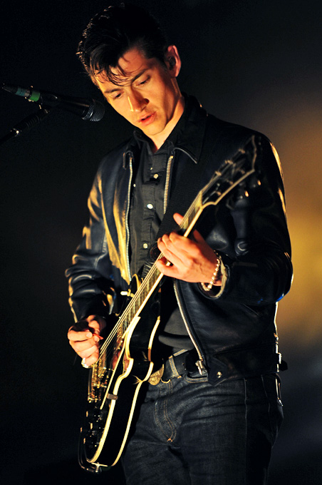 Southbound Festival 2012